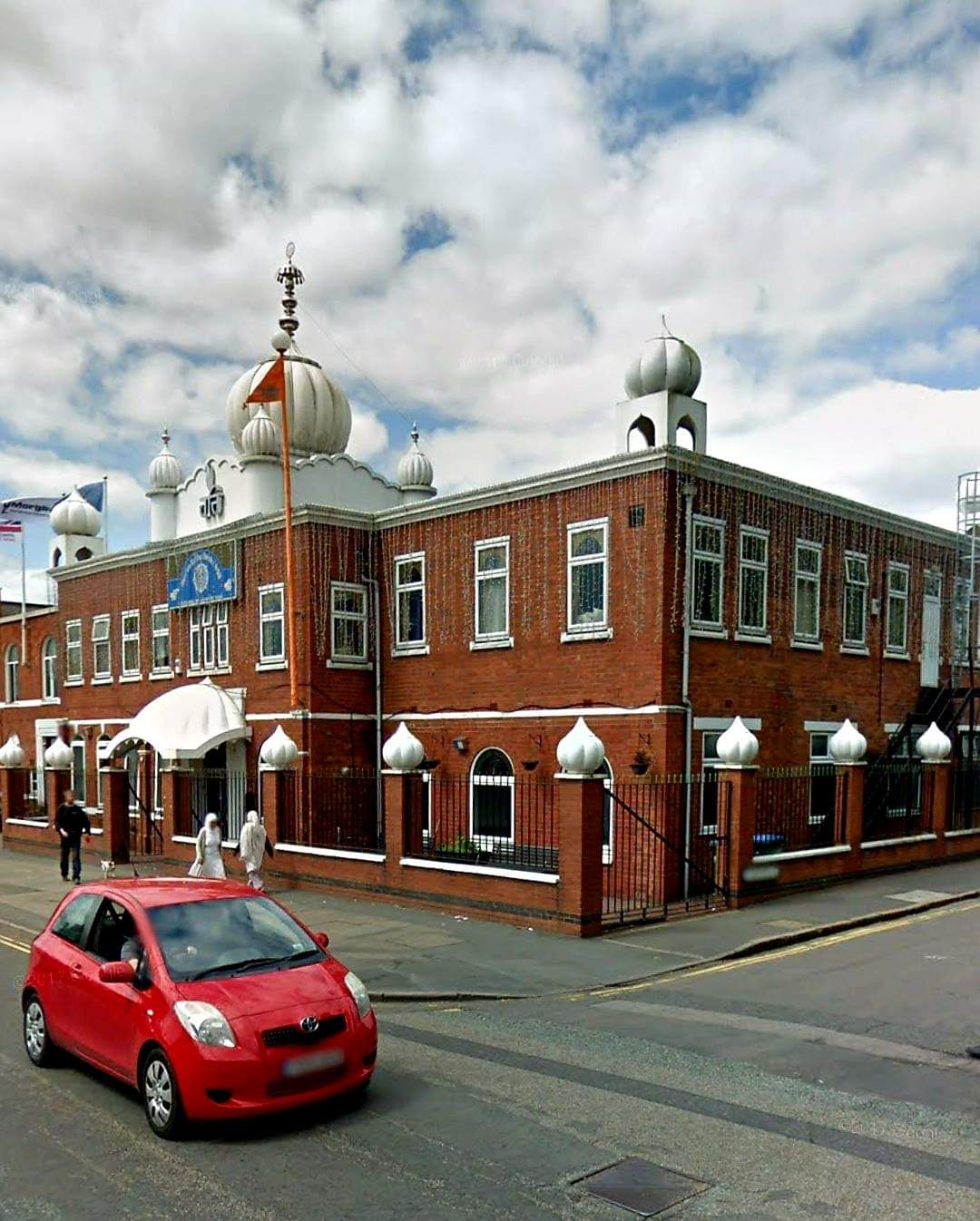 Gurdwara Guru Ravidass Temple, Foleshill